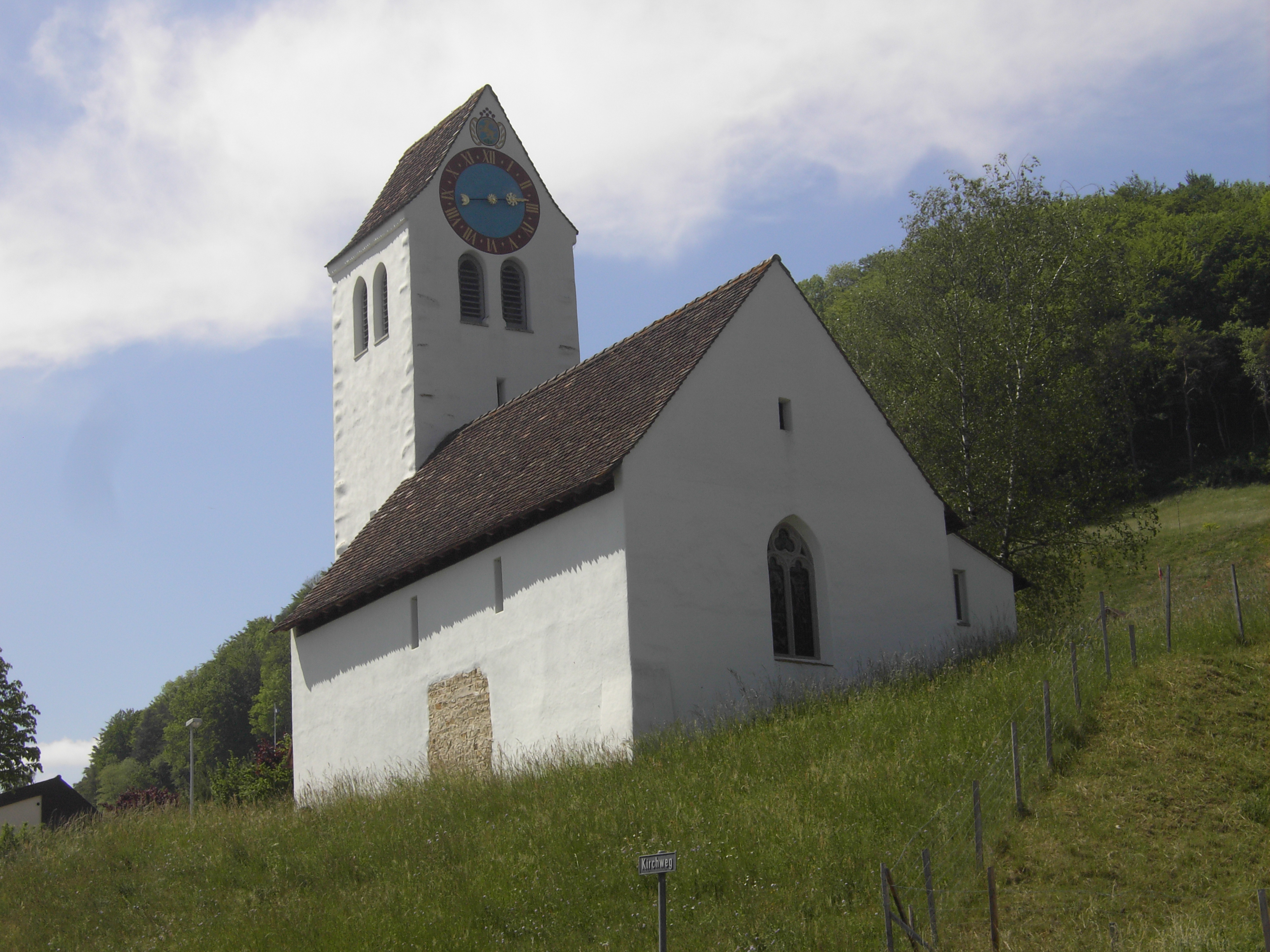 Church in Remigen AG, Switzerland